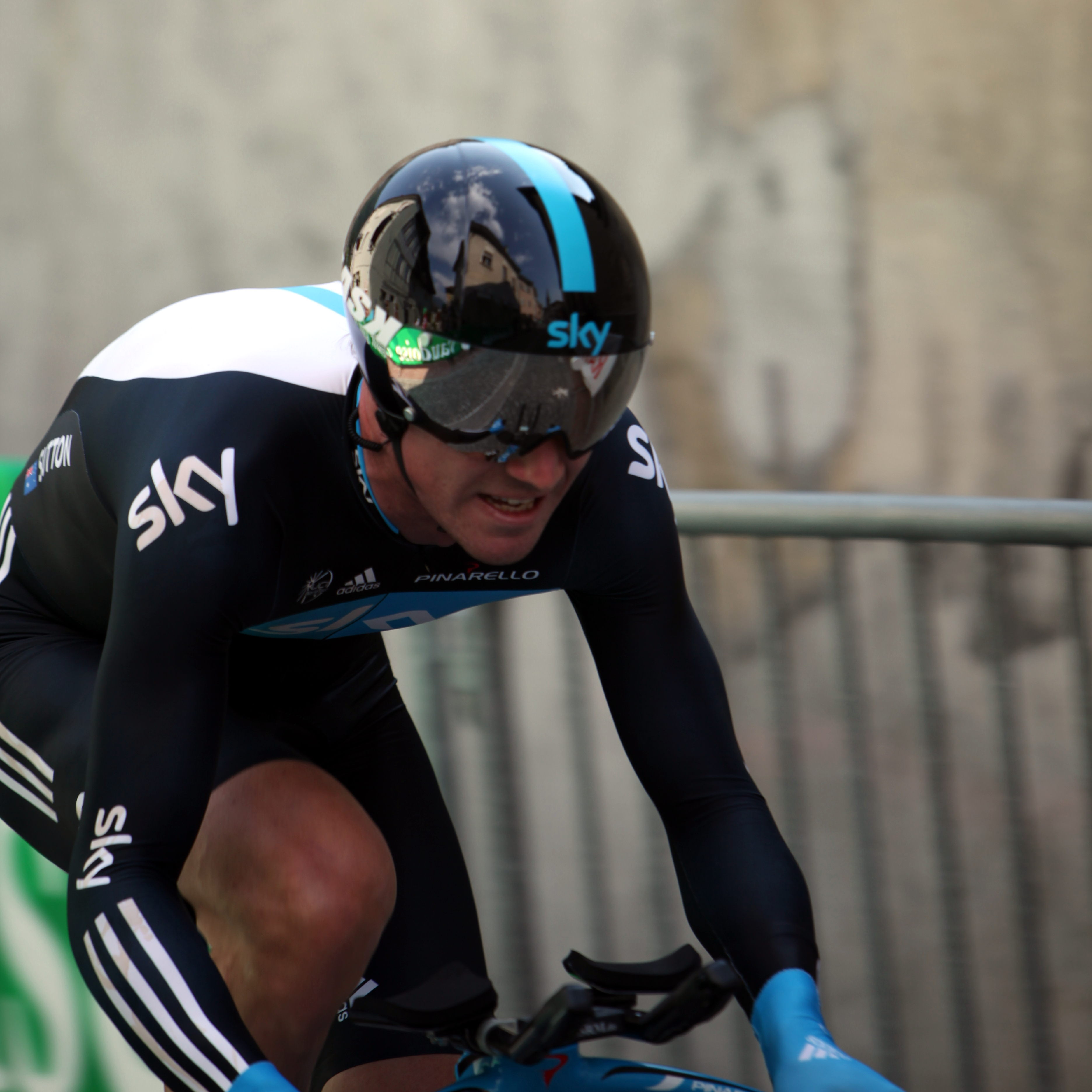 Christopher Sutton at the prologue of the Tour de Romandie 2011